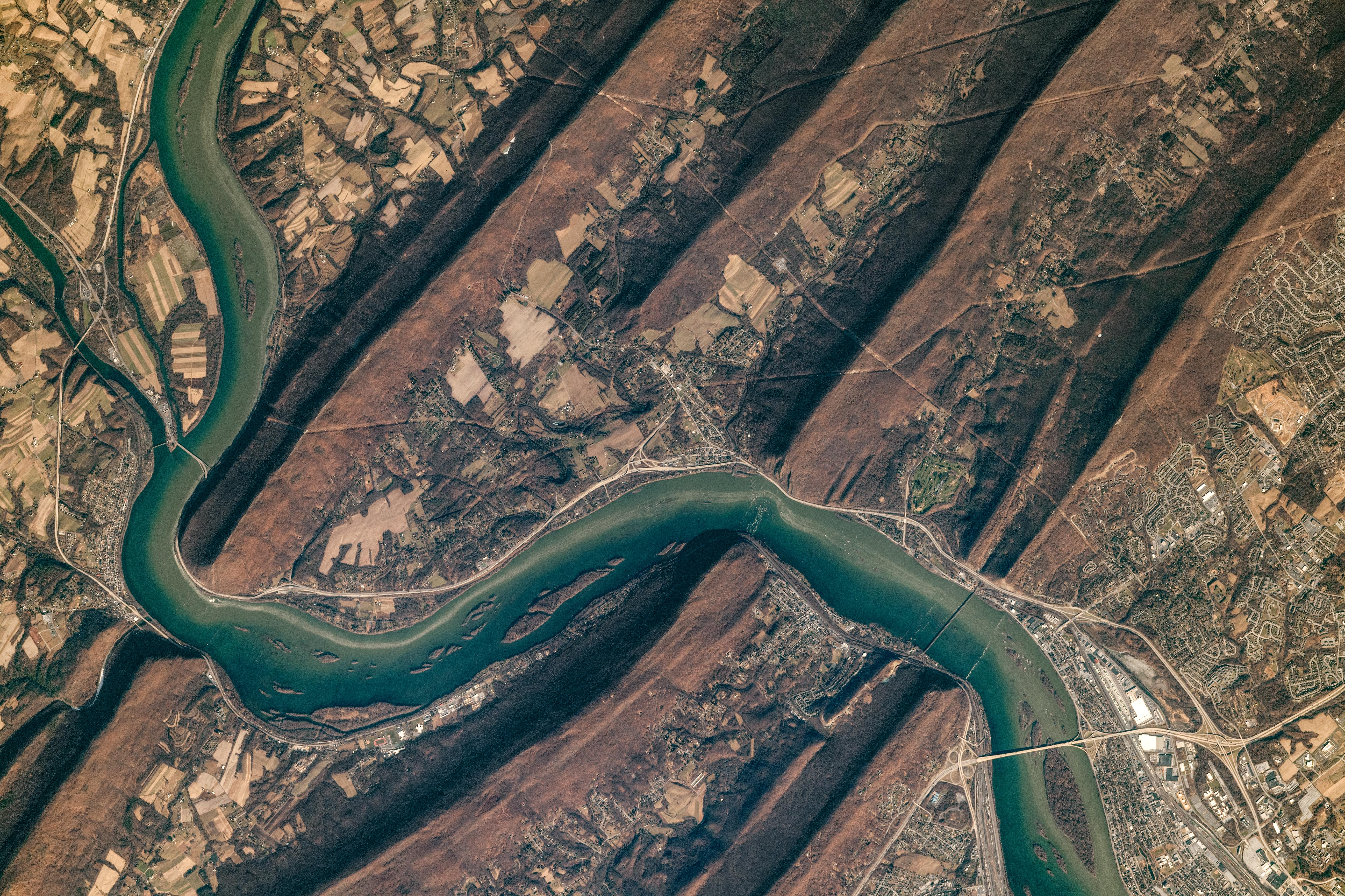 The Susquehanna River cuts through the folds of the Valley-and-Ridge province of the Appalachian Mountains in this photograph taken by an astronaut onboard the International Space Station. Harrisburg, Pennsylvania, and a few smaller towns stand along the banks of the river. The Valley-and-Ridge province is a section of the larger Appalachian Mountain Belt between the Appalachian Plateau and the Blue Ridge physiographic provinces. The northeast-southwest trending ridges are composed of Early Paleozoic sedimentary rocks. The valleys between them were made of softer rocks (limestone and shales) that were more susceptible to erosion; they are now occupied by farms. The Susquehanna River cuts through several ridges as it flows south. The Susquehanna River flows 444 mi (714 kilometers) from upstate New York to Maryland, draining into Chesapeake Bay. The Susquehanna watershed covers more than 27,000 square miles (70,000 square kilometers) and is the source of more than half of the fresh water in the Bay. Farms like the ones in this photograph are a mainstay of Pennsylvania’s economy. However, they also contribute a large influx of nutrient and sediment pollution flowing into the Bay.